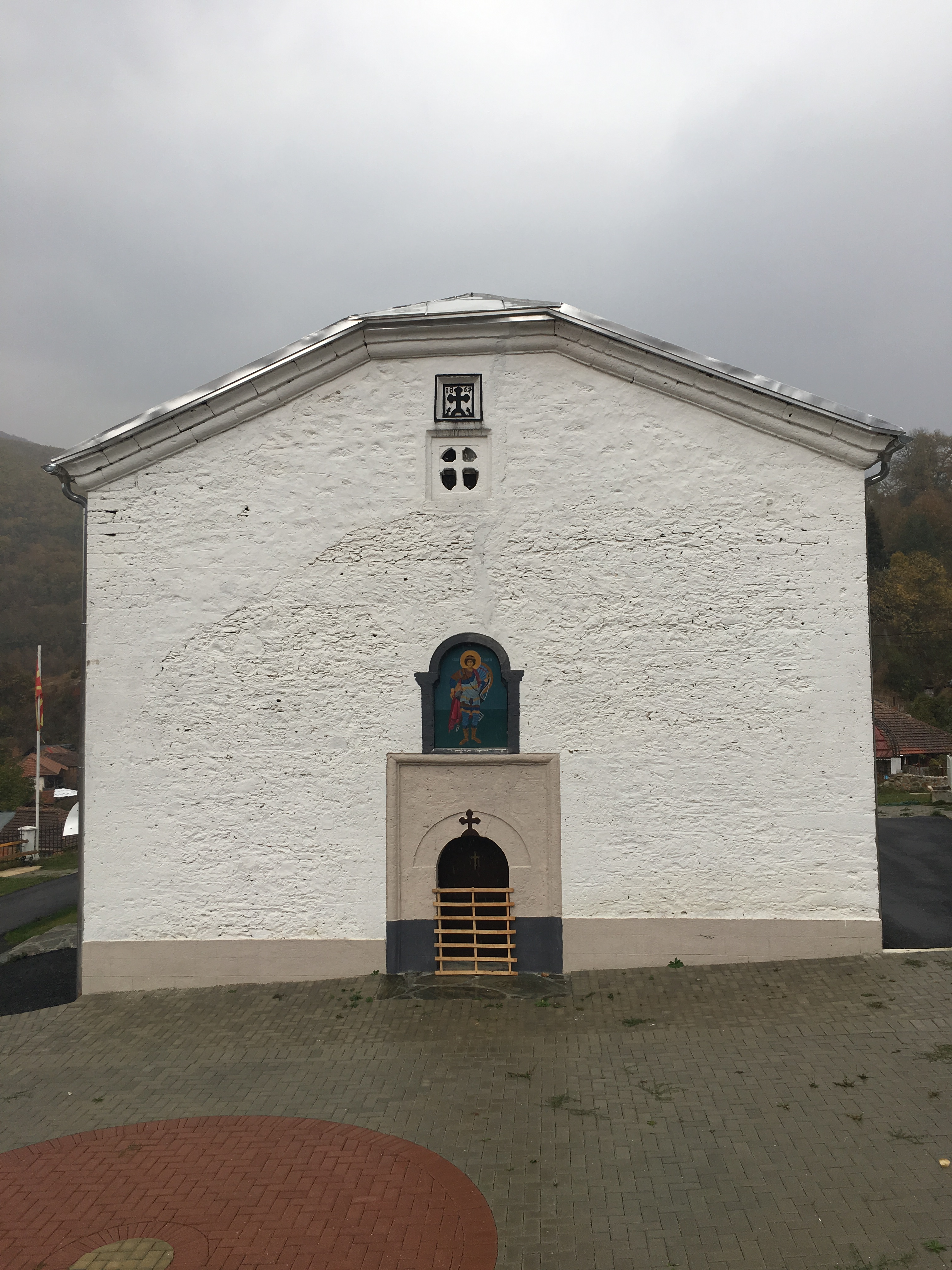 Wikiexpedition to Kopačka